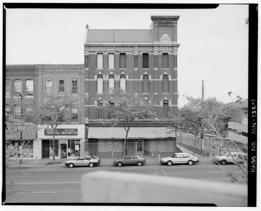 Front image of Dania Hall as seen across from Cedar Avenue. Fifth Street is seen on the right and a no longer existing bridge from Riverside Plaza across Cedar Avenue can also be seen.